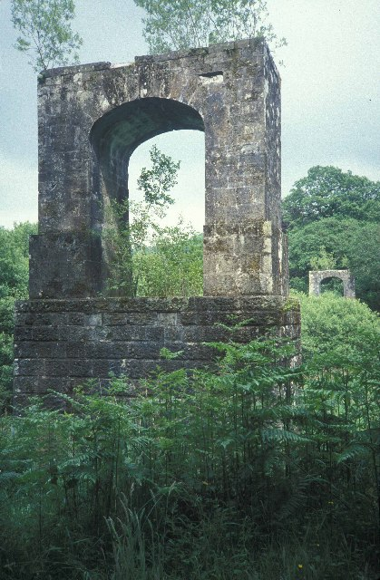 Incomplete suspension bridge at Arlington Court. There was a plan for a dramatic approach to Arlington Court, which involved spanning the valley with a suspension bridge. These two piers were all that got built; they lie within the grounds.